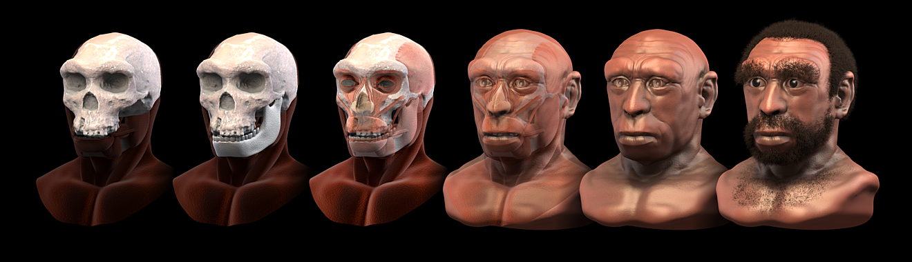 Homo heidelbergensis - forensic facial reconstruction/approximation